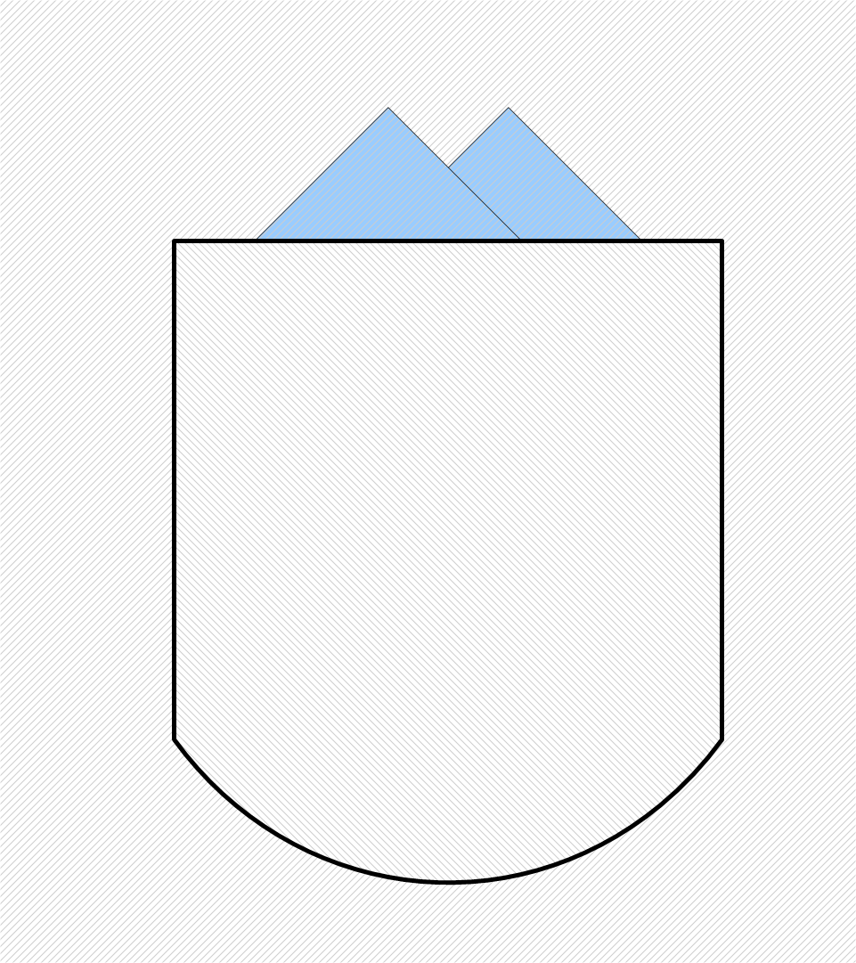 Diagram of a patch pocket.